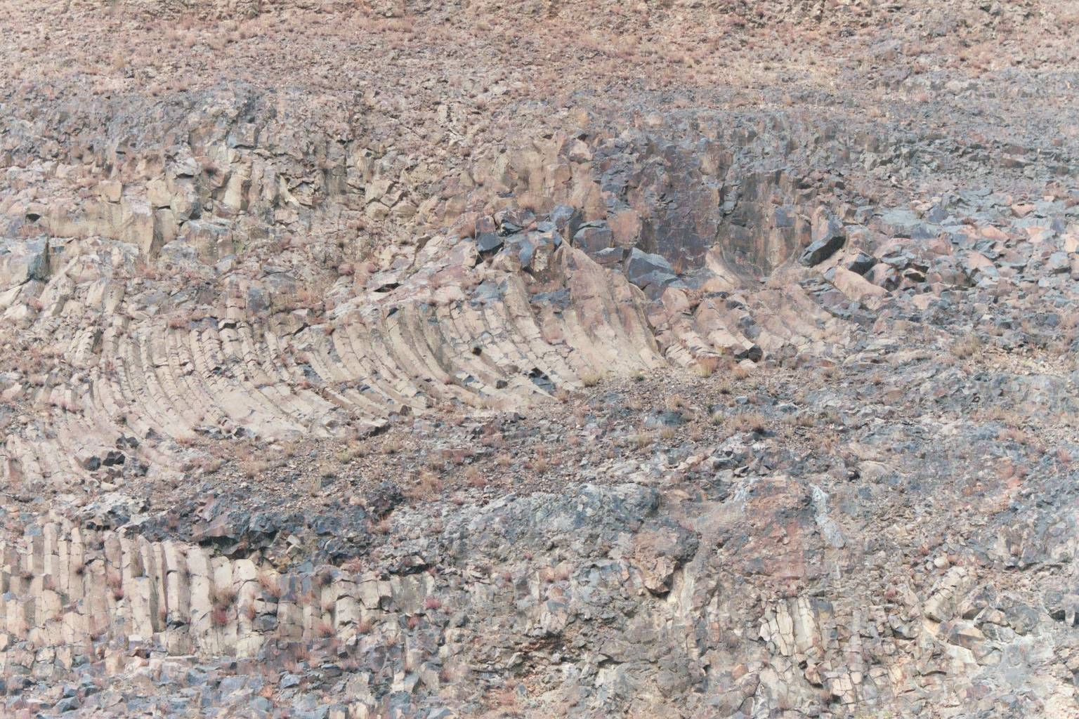 Basalt face at Whitebird Pass in Idaho. This photo was taken in August 2004 at the rest area overlooking Whitebird Battlefield. It shows basalt running several different directions.